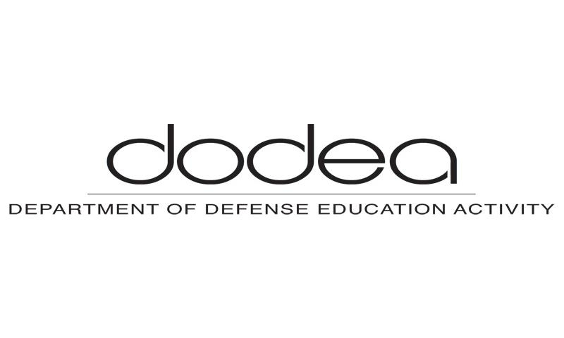 This is the logo of the US Department of Defense Education Activity (DoDEA), used to identify this agency of the US Federal Government